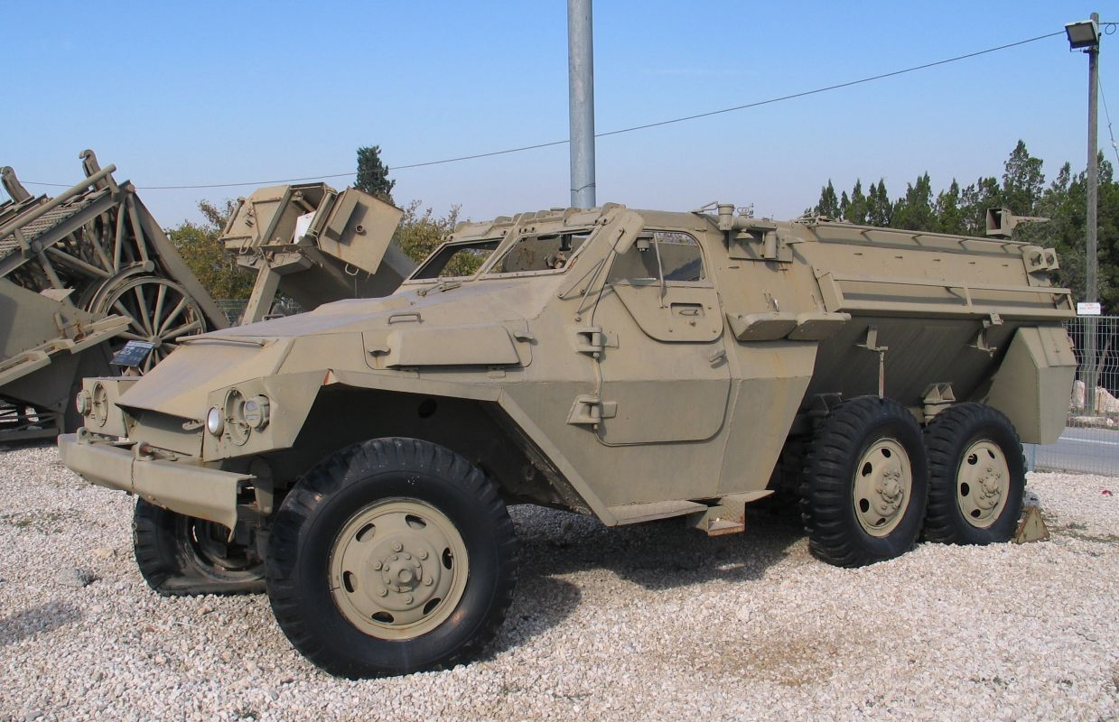 Description: Israeli Shoet APC in Yad la-Shiryon Museum, Israel. 2005. Source: Photo by me, User:Bukvoed.